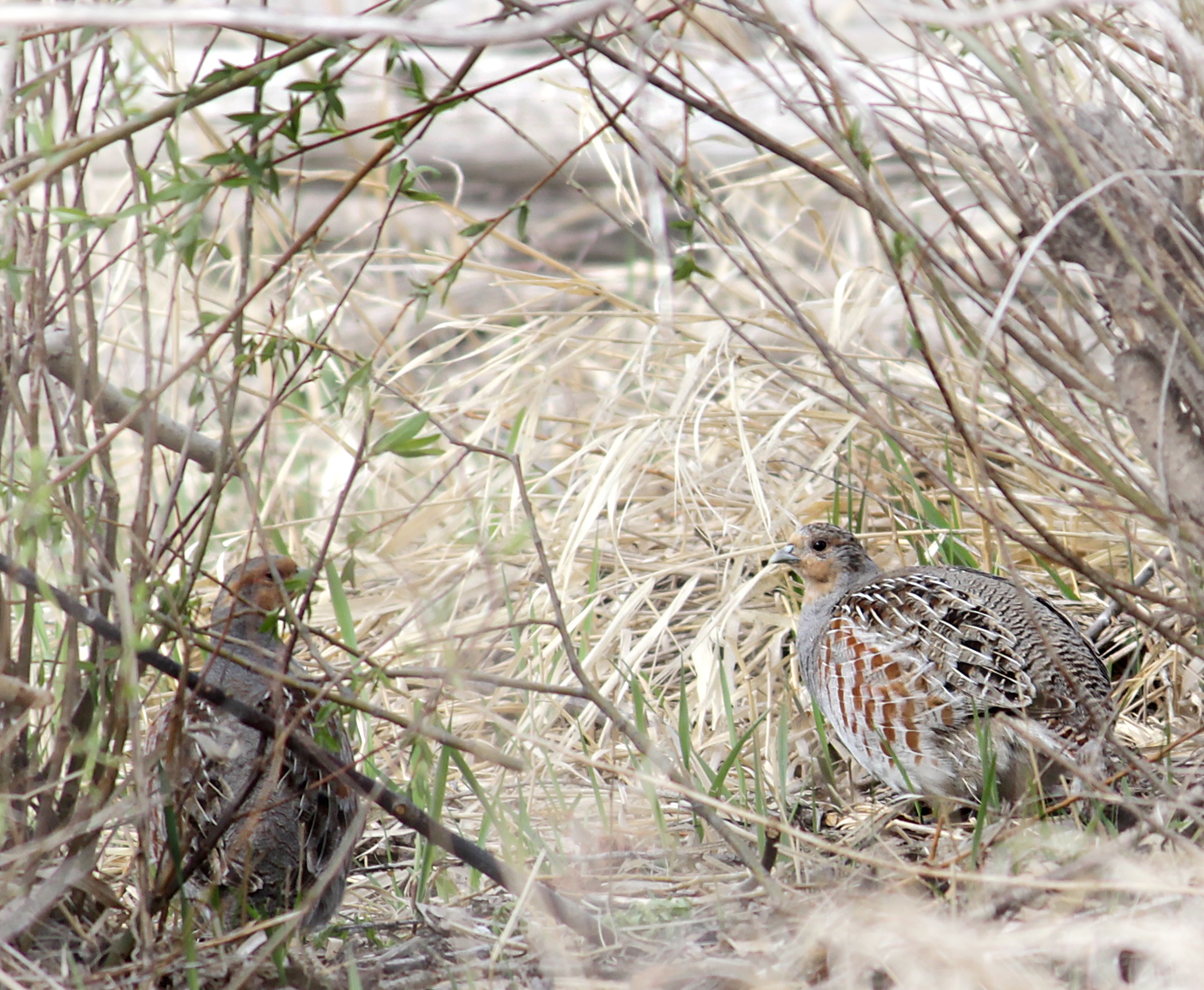 These gray partridge (Perdix perdix) were tough to spot under the trees along a wetland that was being surveyed for duck pairs in McIntosh County, North Dakota. Partridge are a game species that was introduced from Eurasia. Photo Credit: Krista Lundgren/USFWS